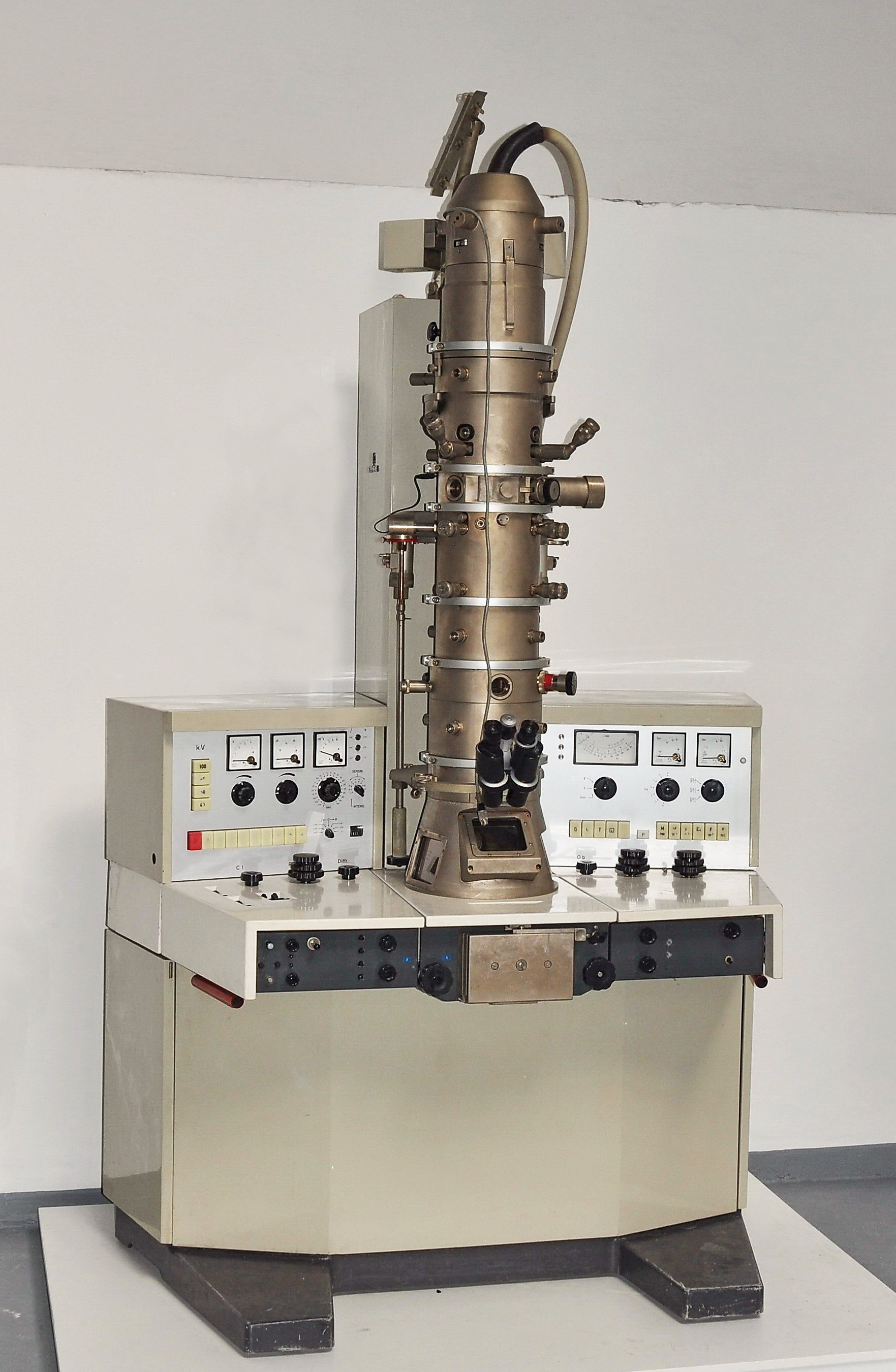 Electron microscope Siemens, Germany, 1960. It is located in Museum of Science and Technology Belgrade.